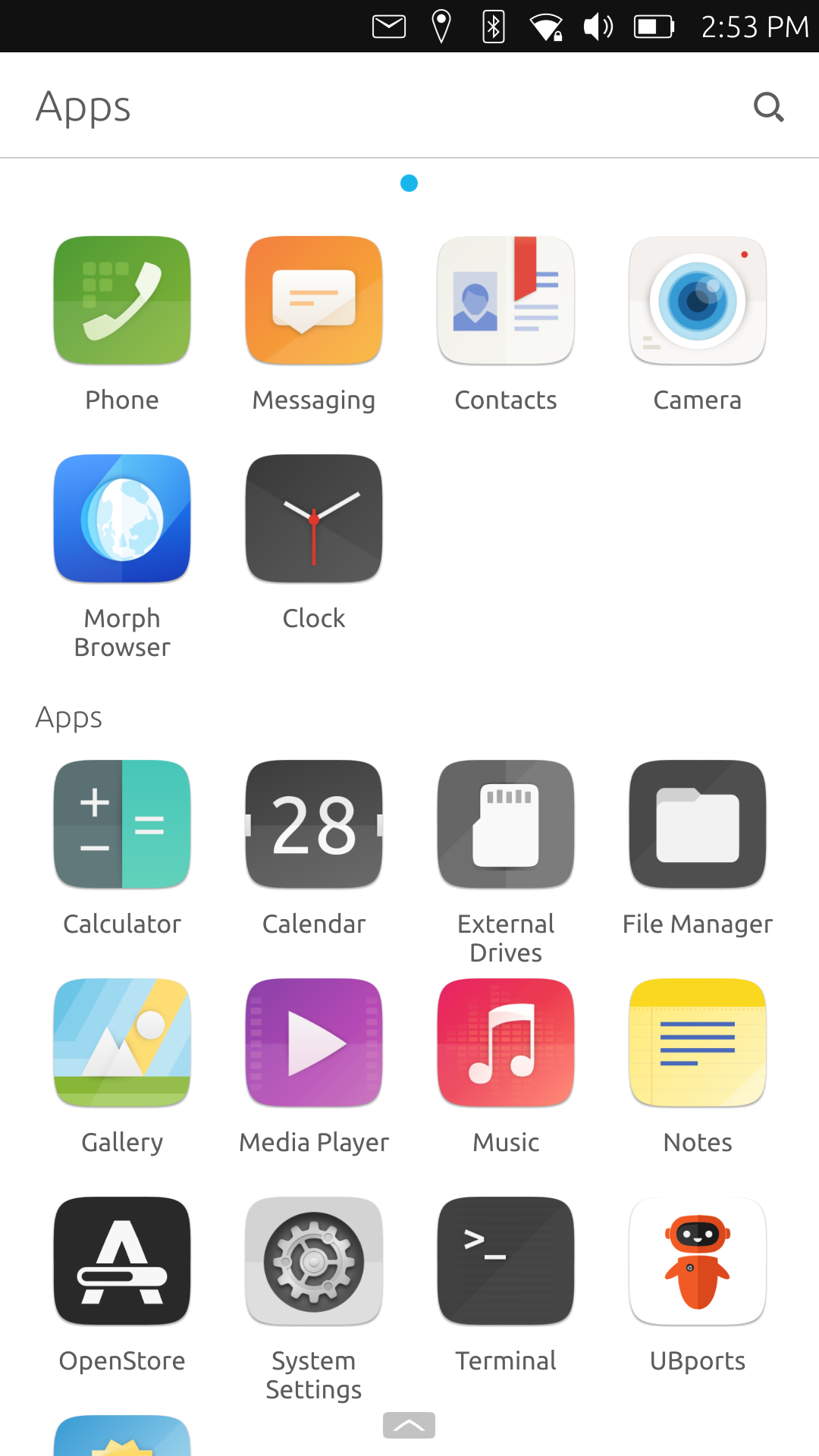 Screenshot showing the app launcher on Ubuntu Touch